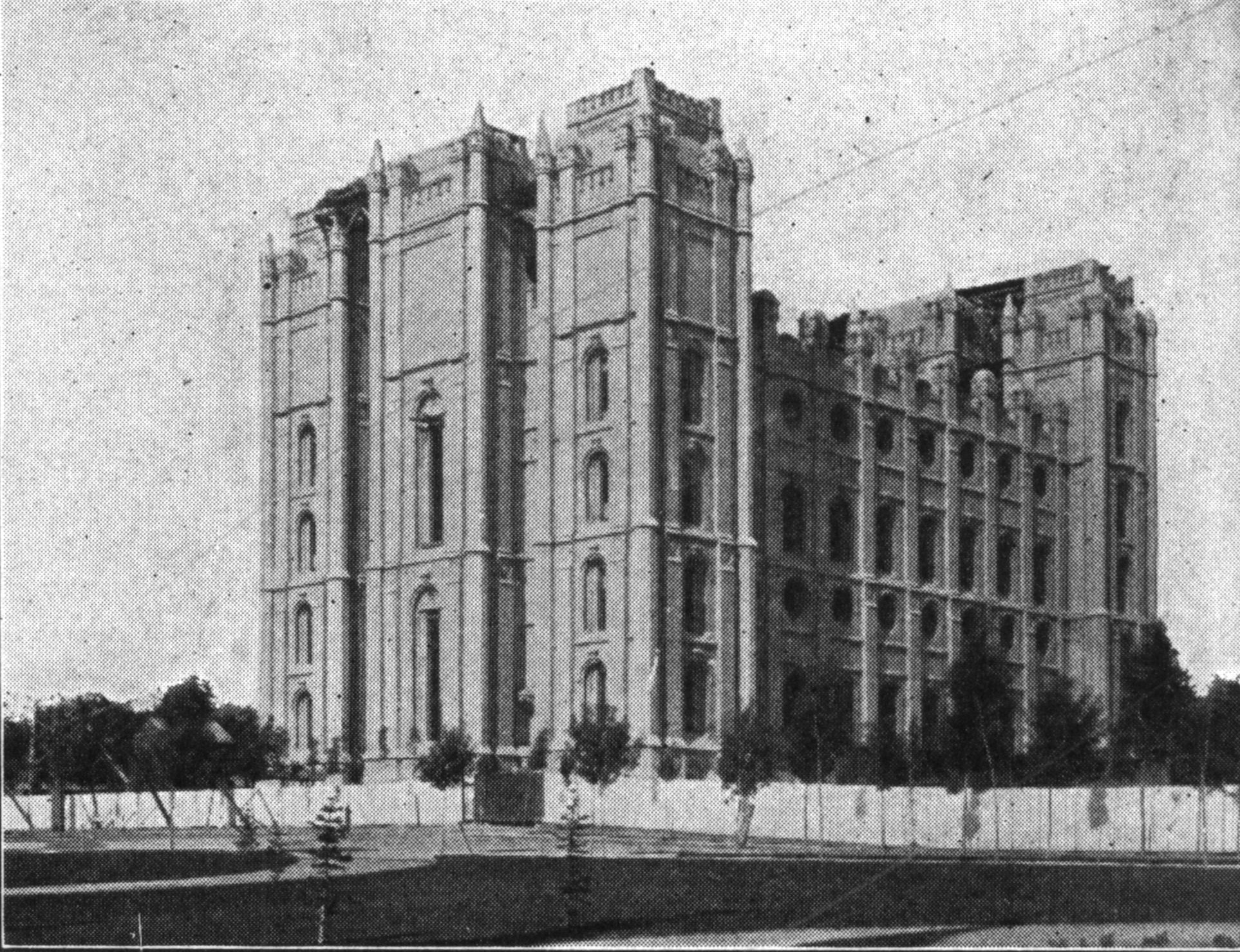 The Salt Lake Temple of The Church of Jesus Christ of Latter-day Saints in the 1880s.